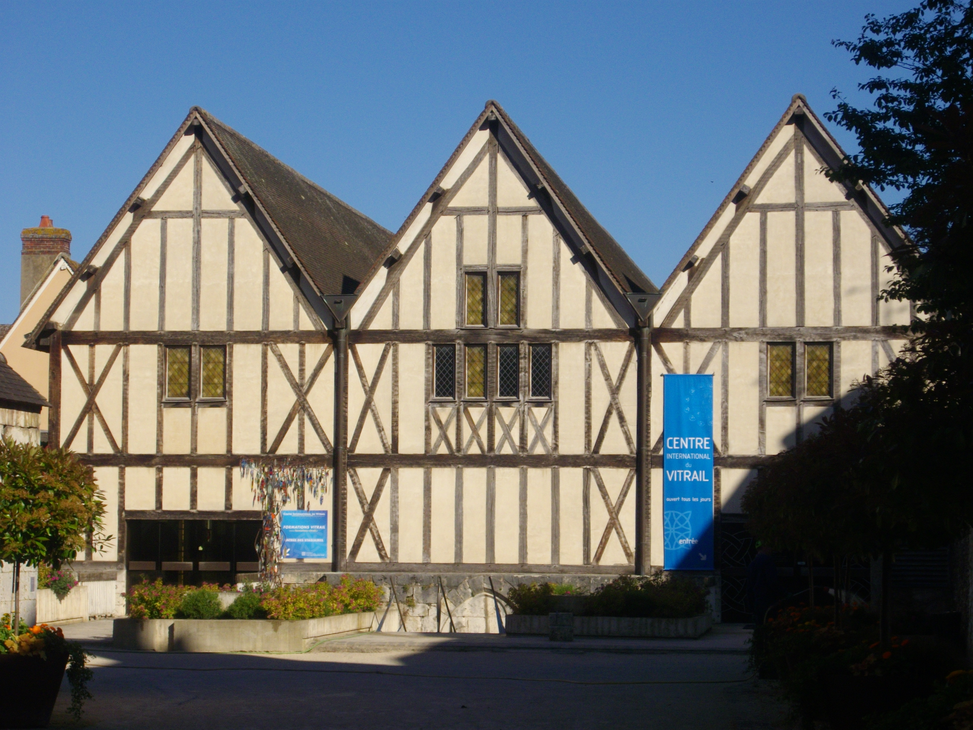 Loëns cellar, Chartres (Eure-et-Loir, France) .